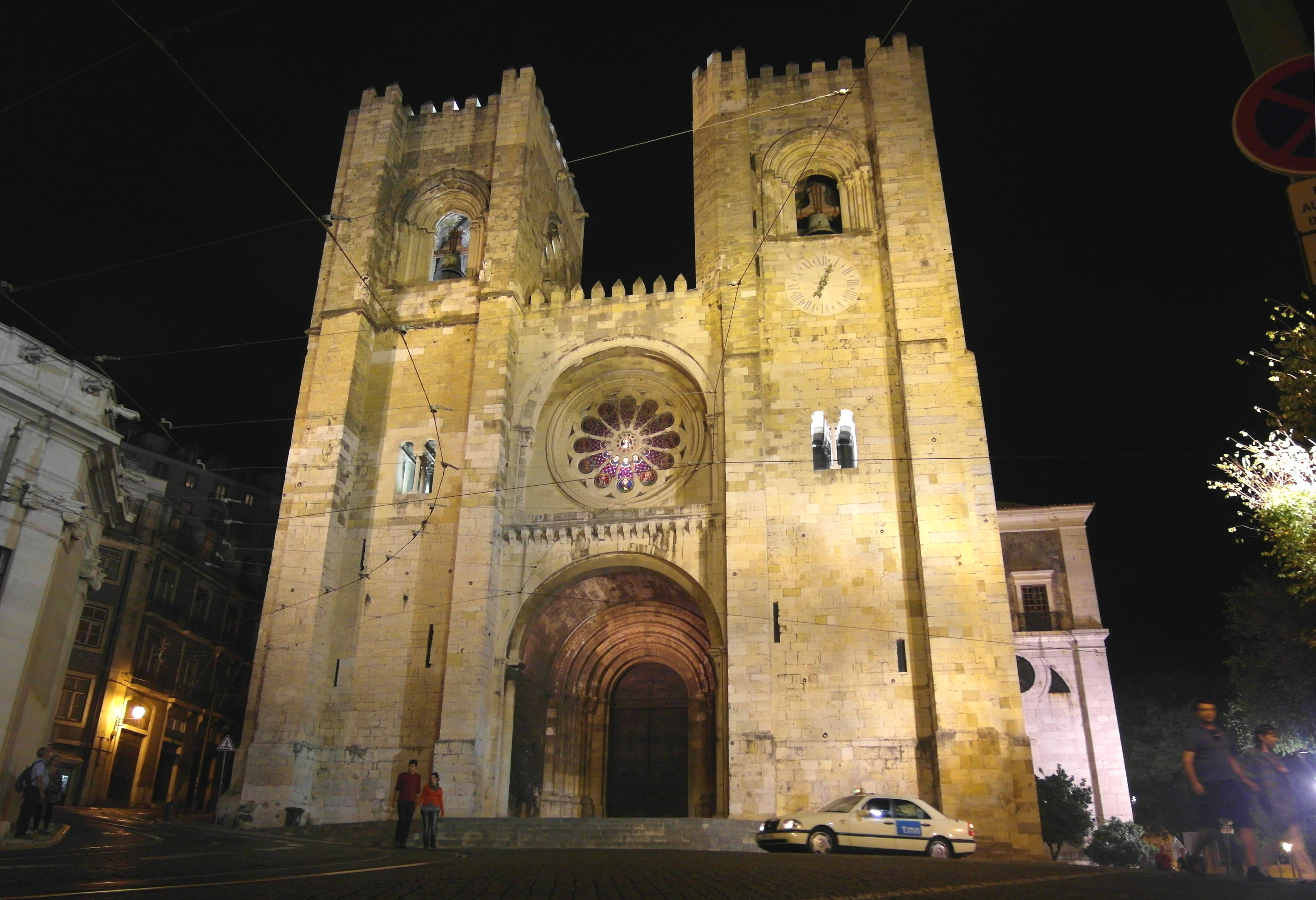 Sé cathedral at night